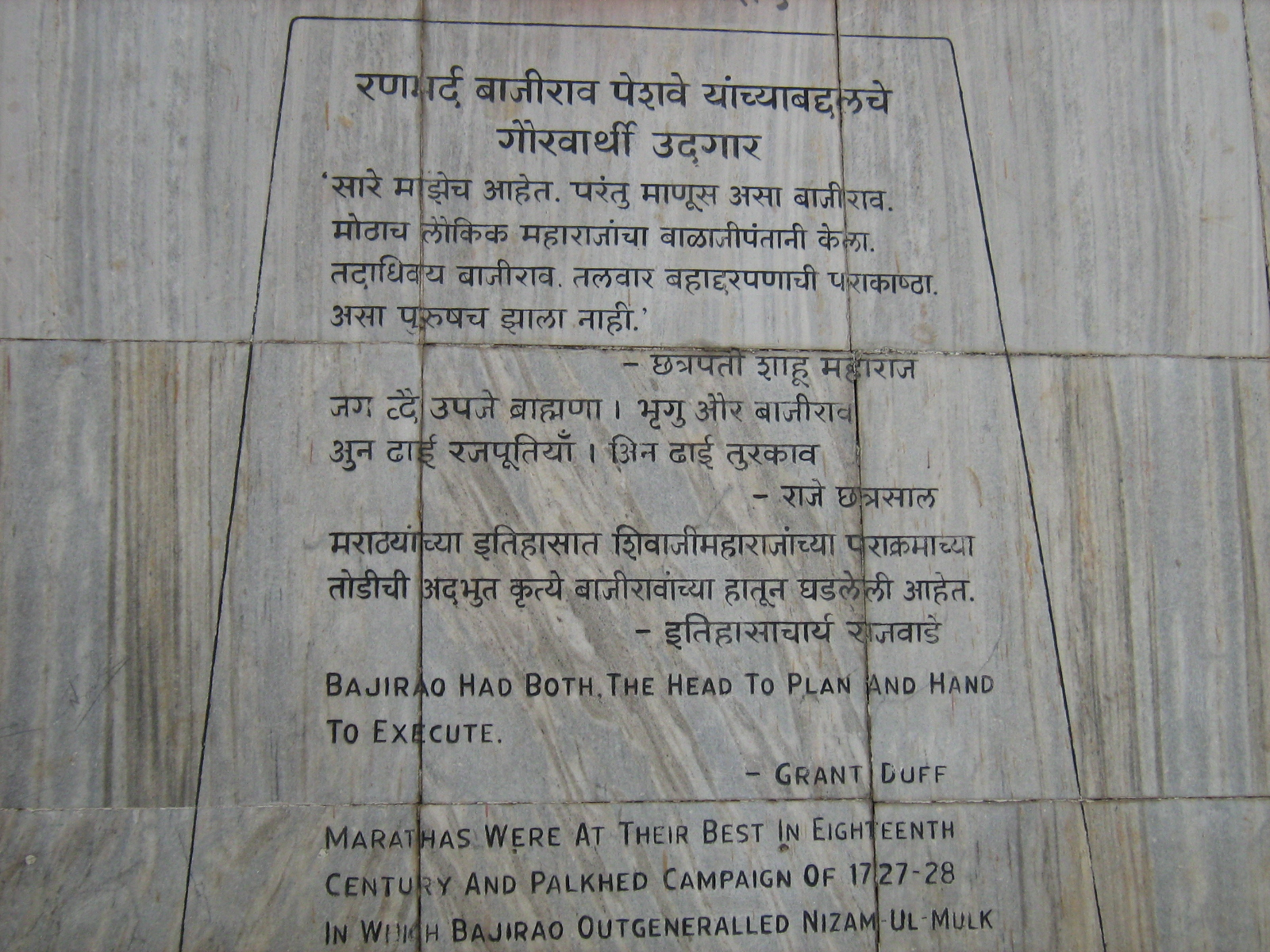 An information plaque about the Peshwa of India (Bajirao - The First) describes him as a 'man of the battlefield'